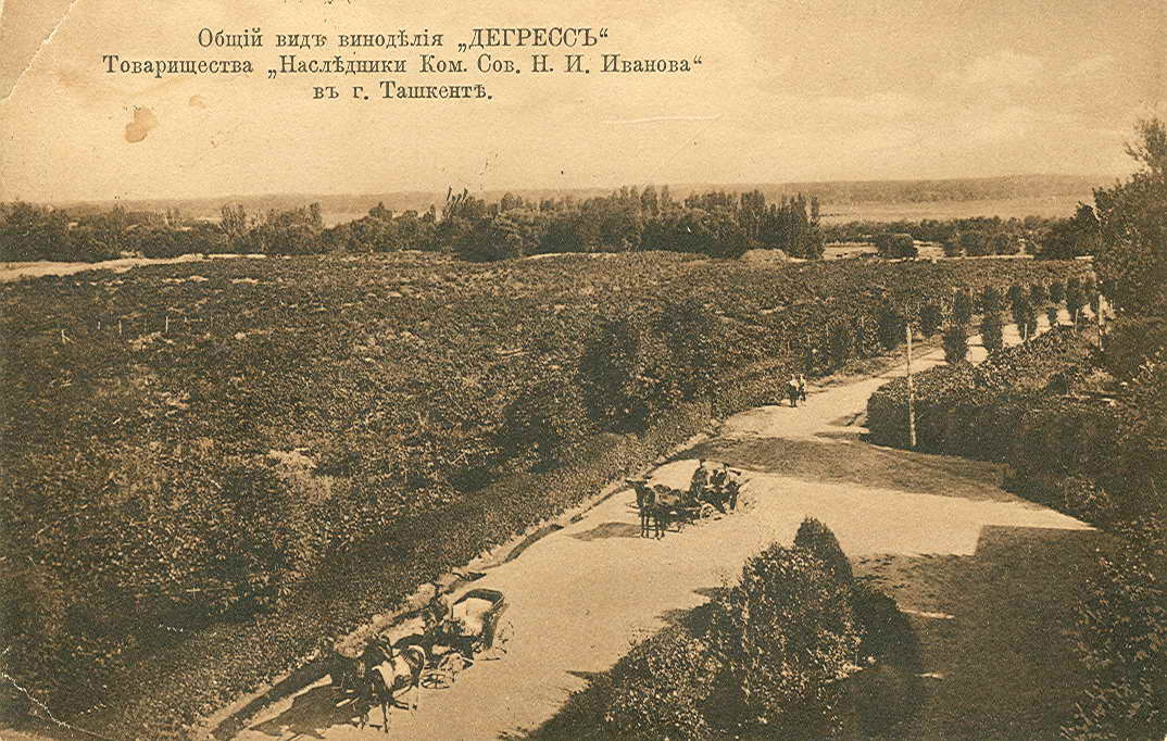 The Tashkent Winery Enterprise of the Heirs of Nikolai Ivanovich Ivanov